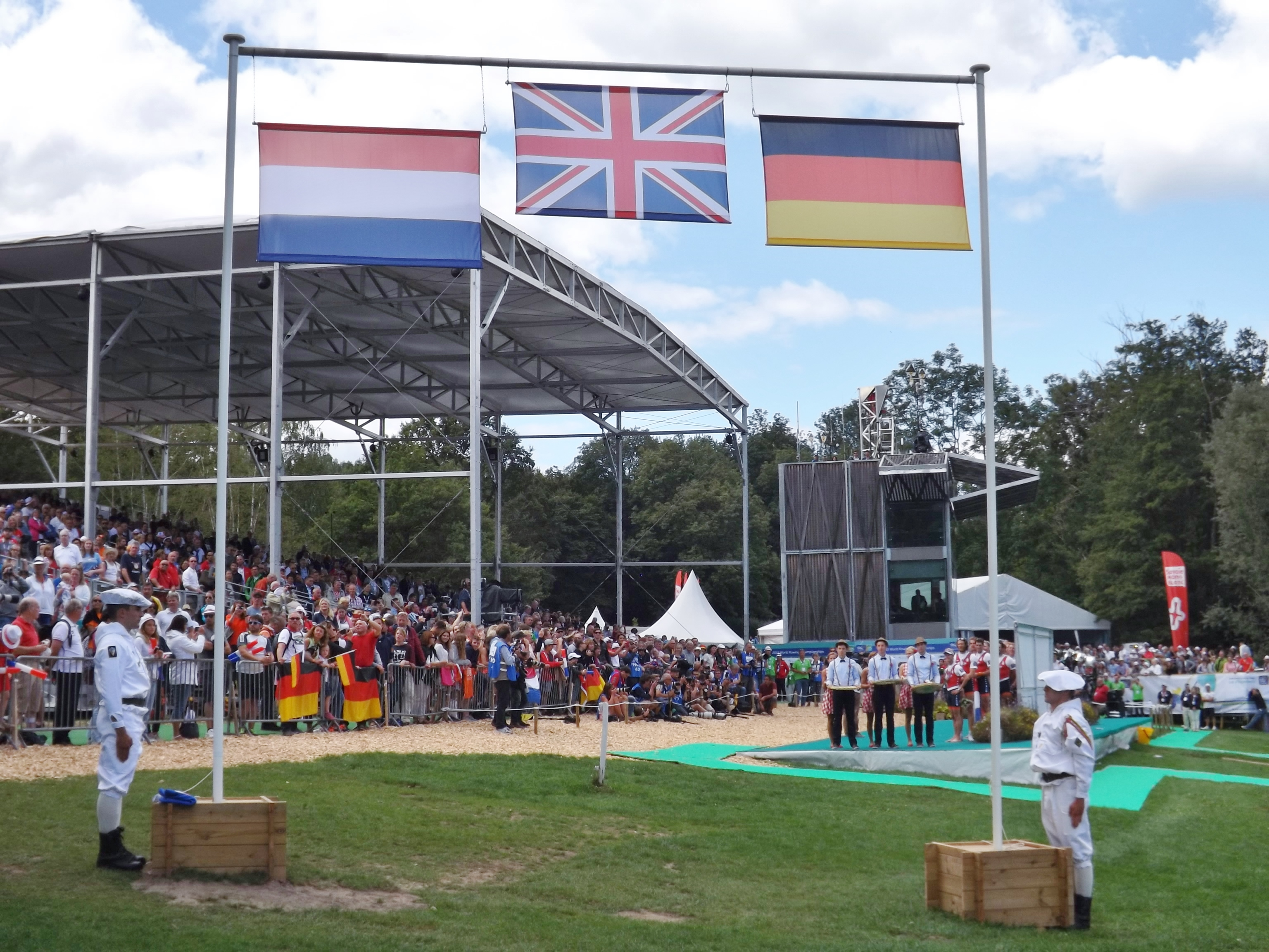 Medals ceremony, won by Great Britain, Germany and the Nederlands, during the 2015 World Rowing Championships taking place on the lac d'Aiguebelette lake, in Savoie, France.